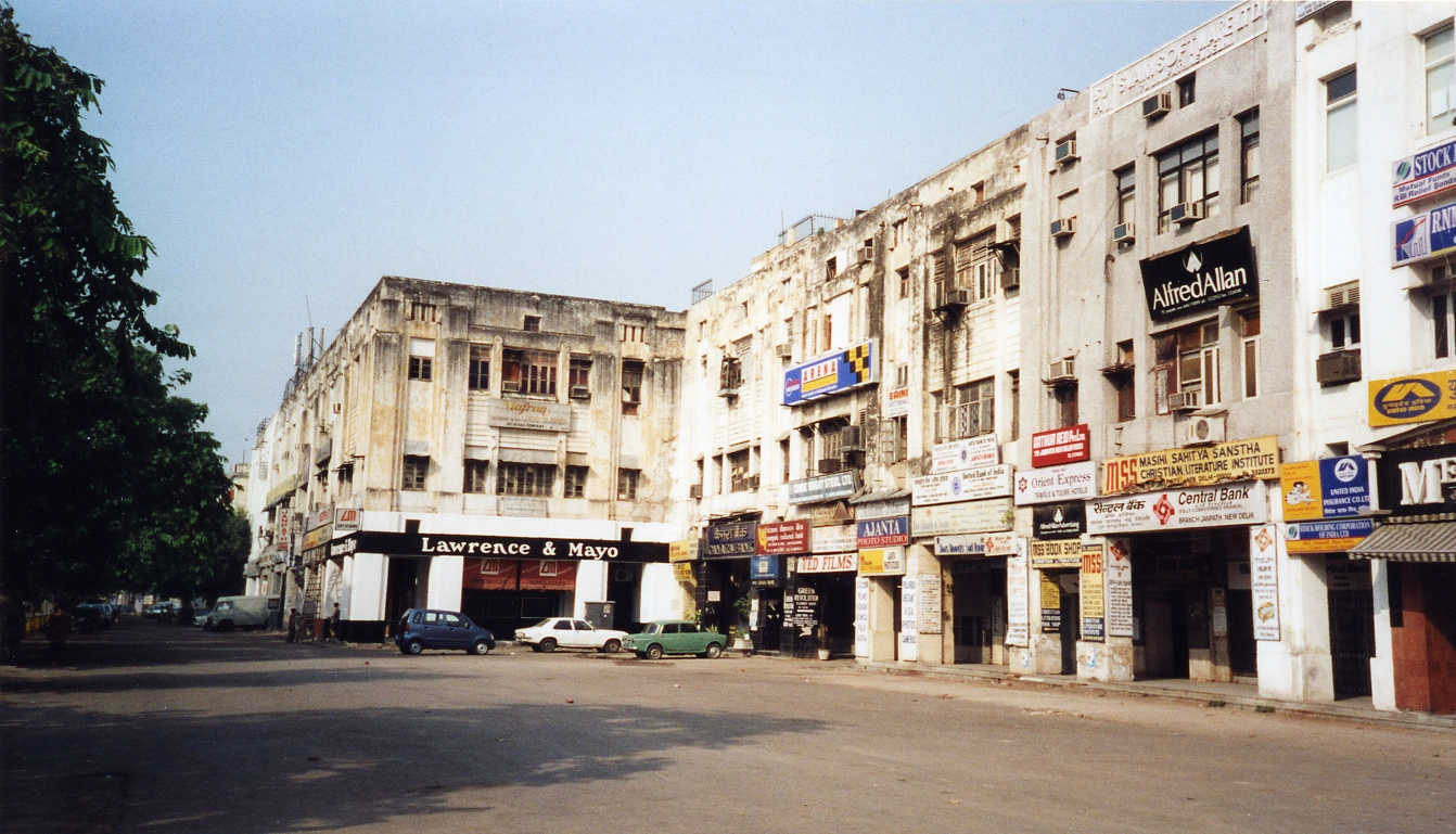 Photo: Soman